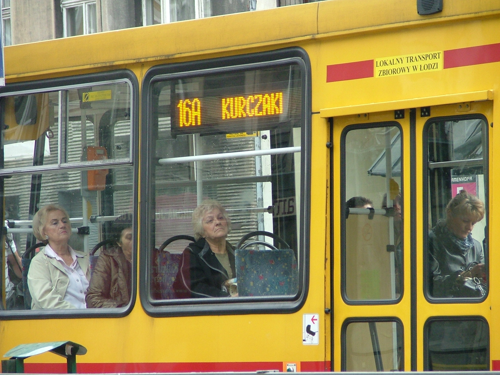 This picture was taken during the photographic wikiworkshop organized by the Association of Wikimedia Poland. All pictures of the workshop you can see in the category wikiwarsztaty 2010. Łódzki tramwaj jadący po kurczaki Personality rights warning Although this work is freely licensed or in the public domain, the person(s) shown may have rights that legally restrict certain re-uses unless those depicted consent to such uses. In these cases, a model release or other evidence of consent could protect you from infringement claims.